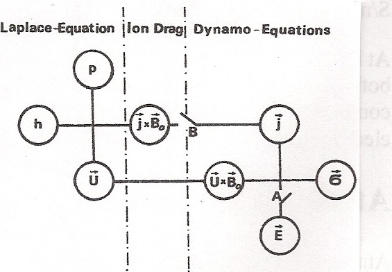 Blockdiagram of Sq